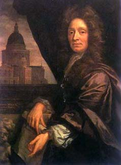 Christopher Wren (1632-1723)